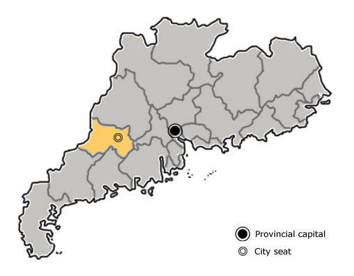 The prefecture-level city of Yunfu is highlighted on this map of Guangdong province, People's Republic of China.